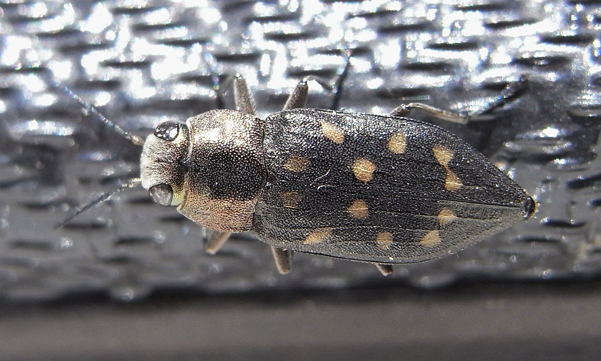 Trachypteris picta from Hungary, Harkany Ricoh R8